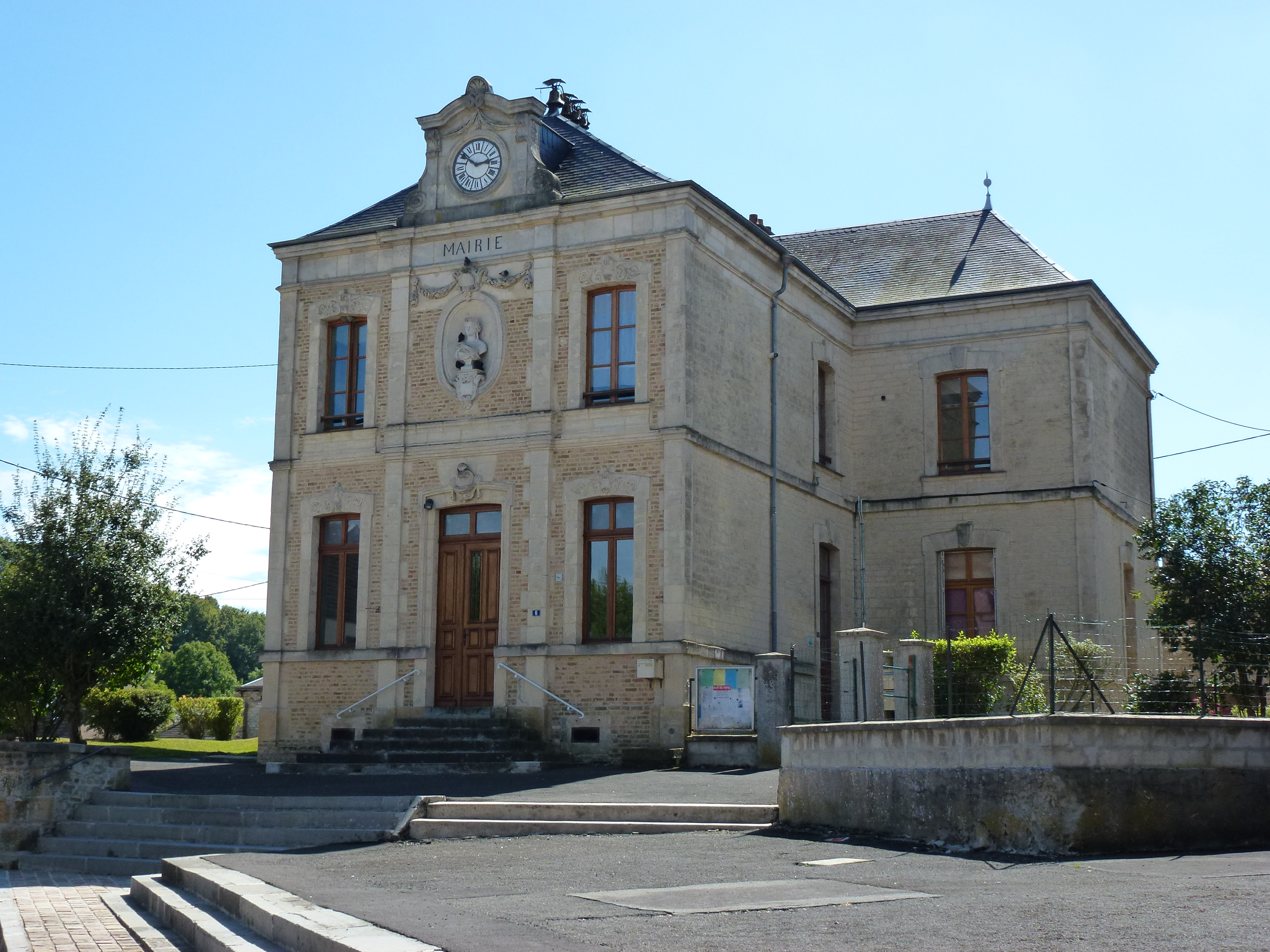 Chesnois-Auboncourt (Ardennes) mairie